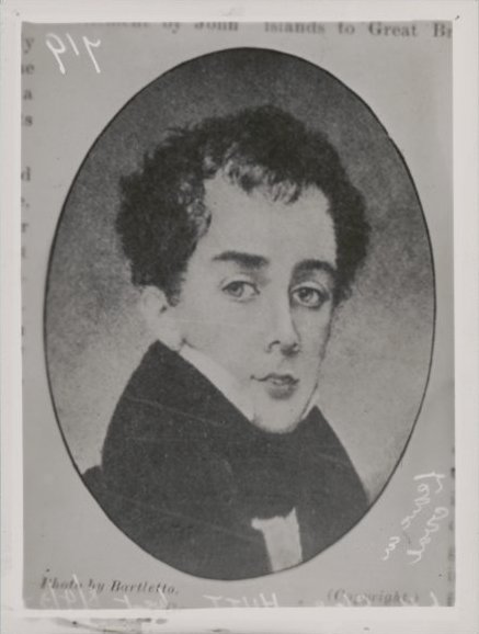 This is a digital image of a pre-1940s duplicate of an 1840s black and white 10.9 x 8.3 cm photograph of John Hutt (1795–1880), Governor of Western from 1839 to 1846.